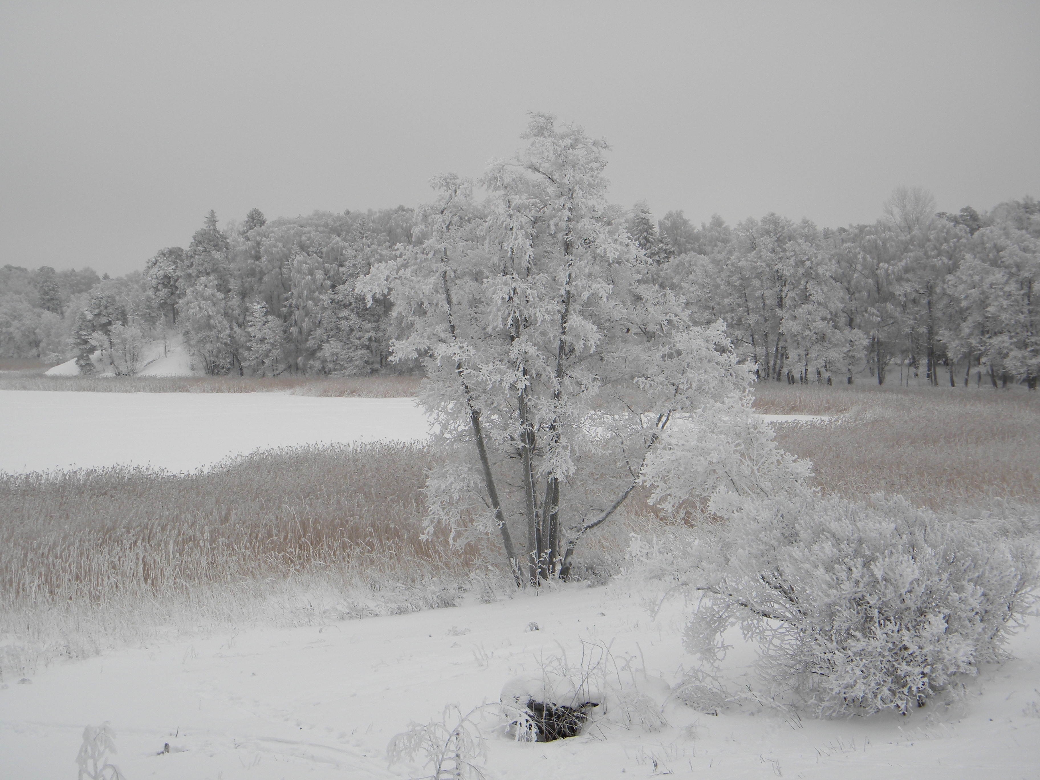 Nature's own winter wonderland. Frozen small bay of Gulf of Finland, Yliskylänlahti (sv. Uppbyviken), as seen from park Tuurholmanpuisto in front of Laajasalo Island (sv. Degerö) in Helsinki, Finland.